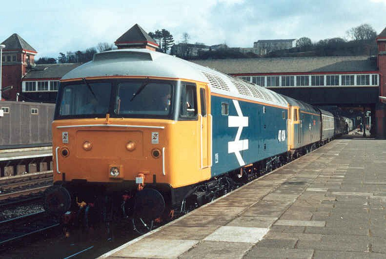 ex woeks 47424 pilots 47607 at Bangor